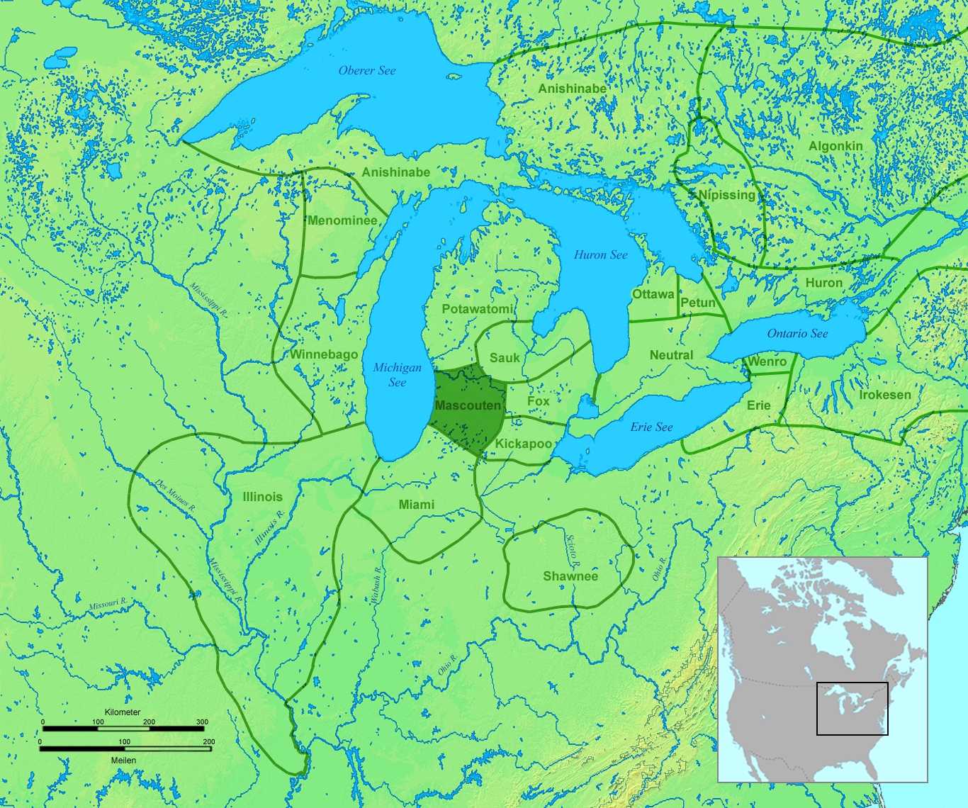 Tribal territory of Mascouten about 1650